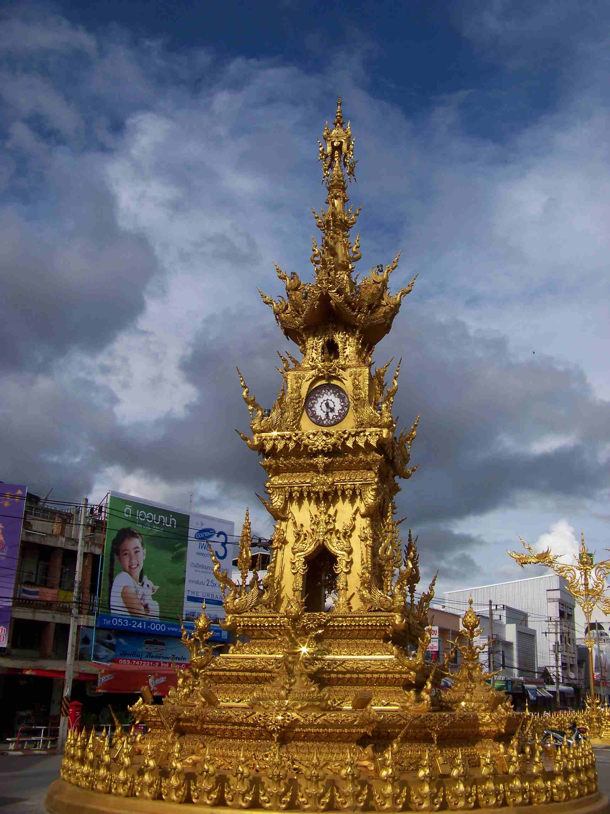 Chiang Rai's clock tower. Golden clock tower in Chiang Rai, Thailand.